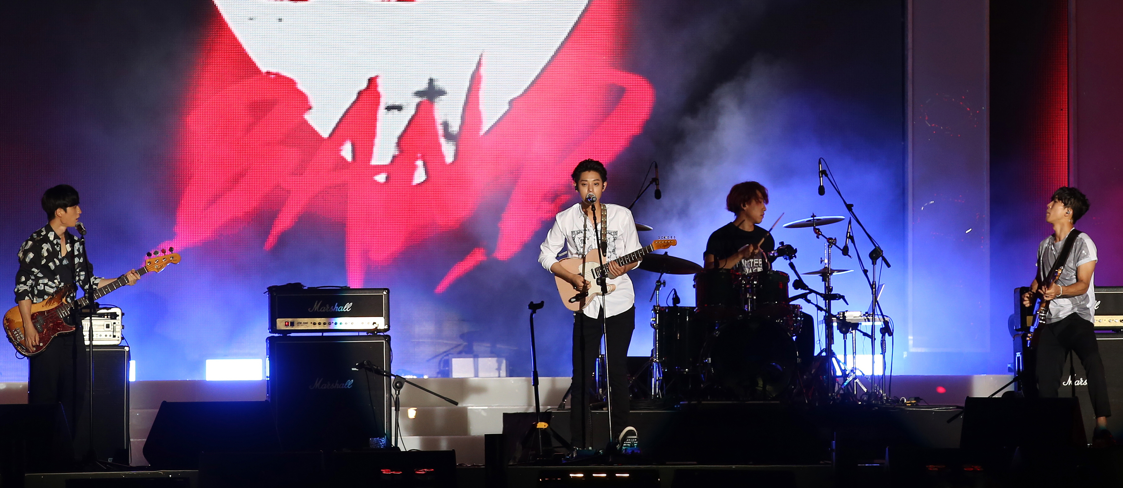 2015 Summer K-POP Festival August 4, 2015 Seoul Plaza Ministry of Culture, Sports and Tourism Korean Culture and Information Service ( Official Photographer : Jeon Han